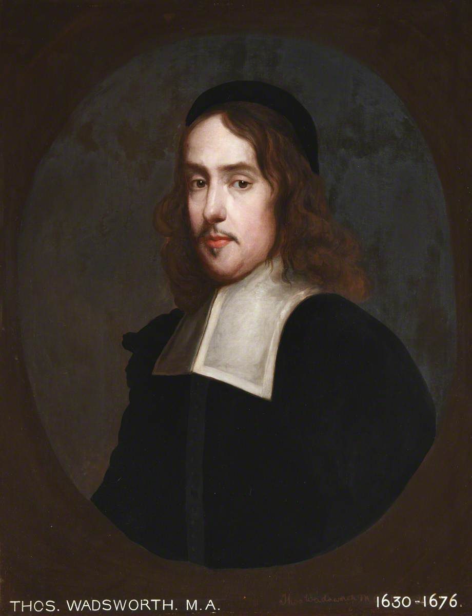 Portrait of Thomas Wadsworth (1630–1676), English minister.